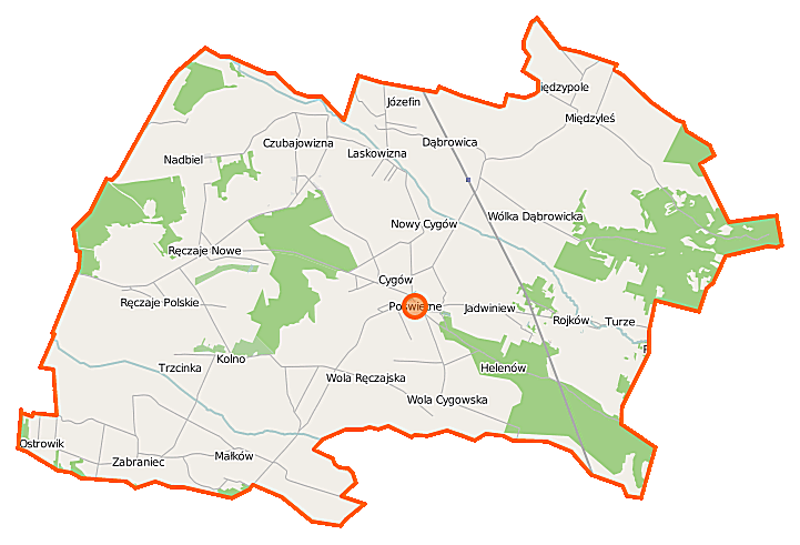 Map of Gmina Poświętne, Poland This map of Poświętne (gmina w województwie mazowieckim) was created from OpenStreetMap project data, collected by the community. This map may be incomplete, and may contain errors. Don't rely solely on it for navigation. Border coordinates52.386121.2943←↕→21.542152.2829